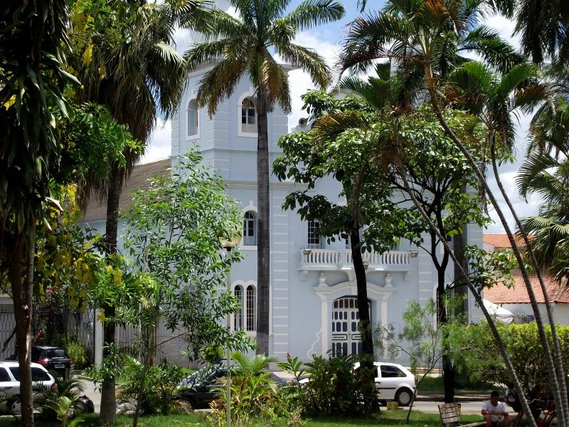 Montes Claros Matriz Church - Minas Gerais, Brazil.